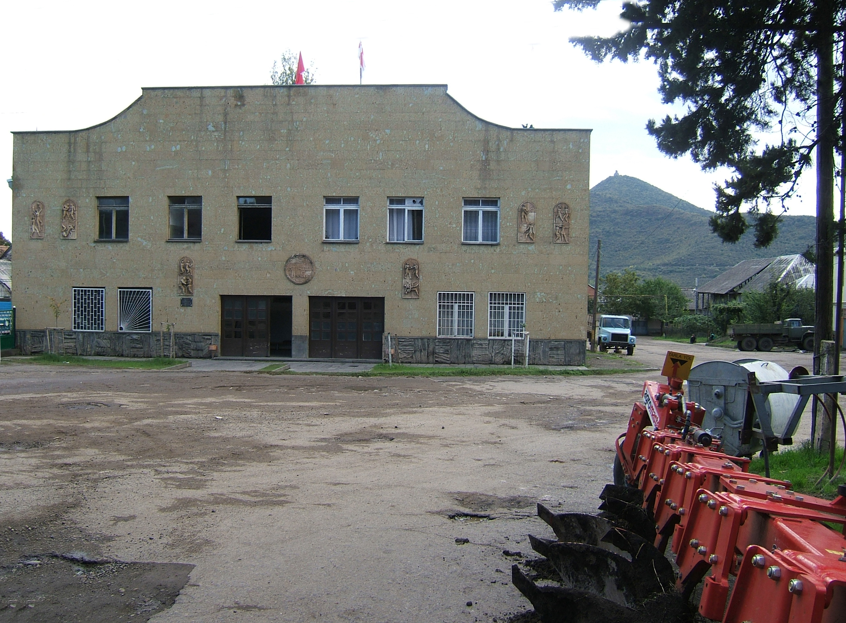 The old Lutheran church of Katharinenfeld, today a sports hall.